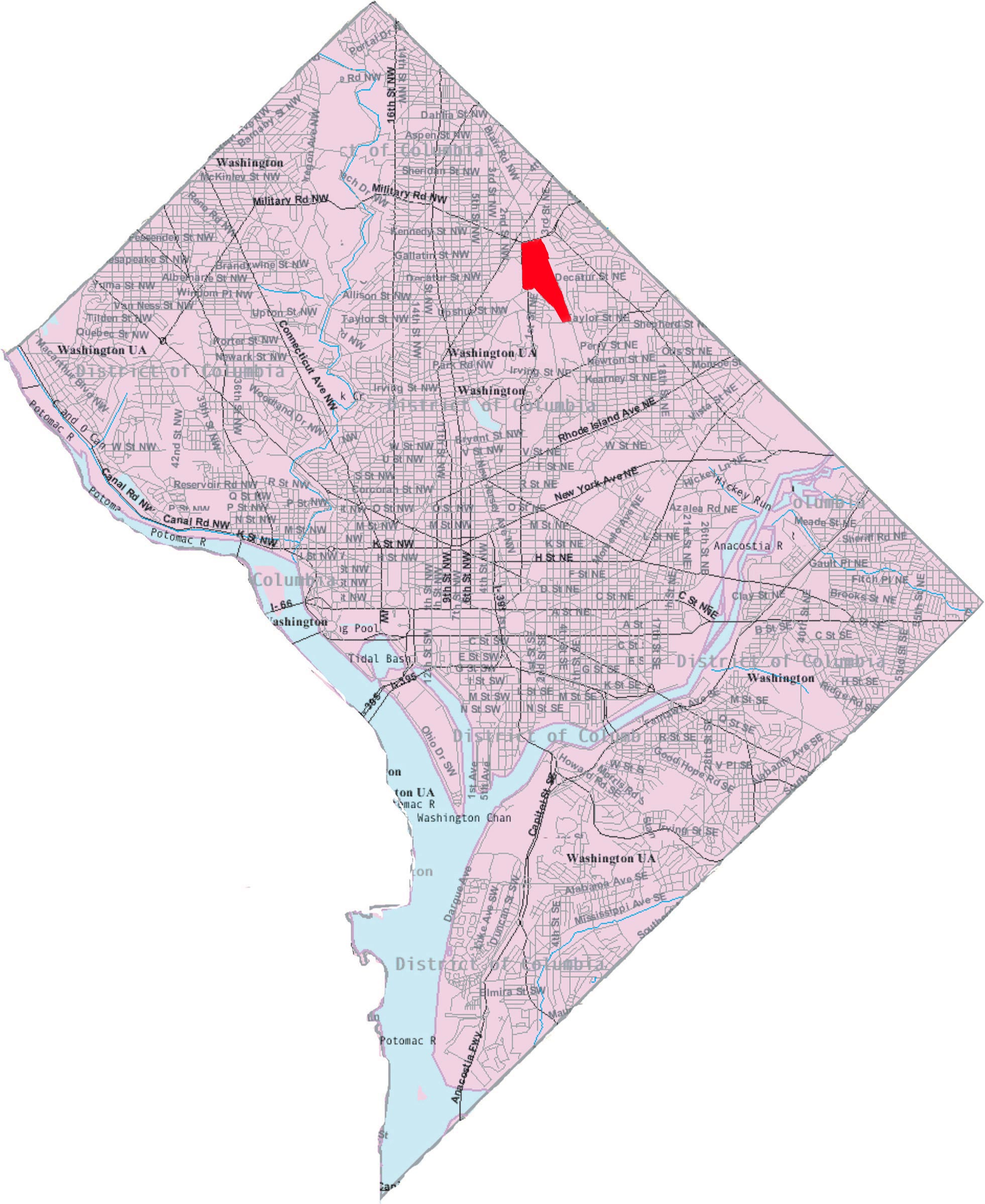 This image is a modified version of a self-generated reference map from the U.S. Census Bureau's American Factfinder at by Wikipedia user Msclguru.